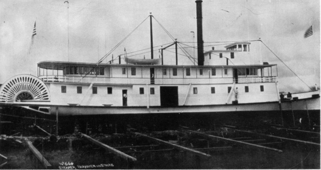 Sidewheeler Fairhaven on launching ways at John J. Holland shipyard in Ballard, Washington, 1889.